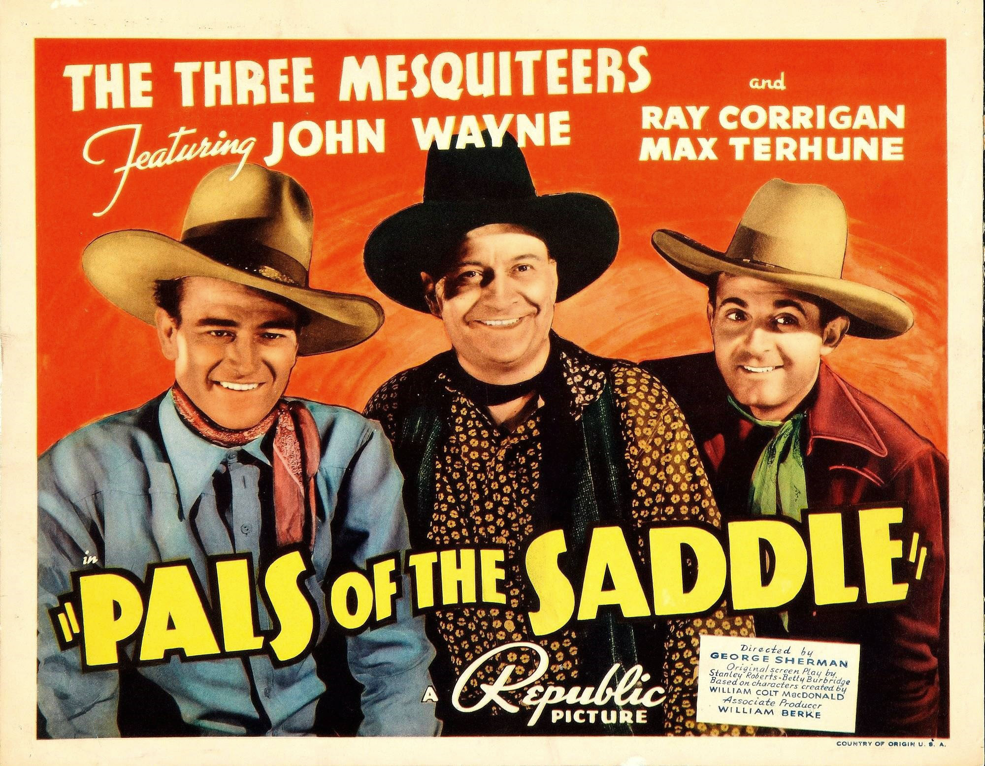 Lobby card for the American western film Pals of the Saddle (1938).